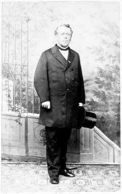 Ferdinand Jühlke was a german garden director in Potsdam, garden designer, teacher and writer about various topics in gardening.